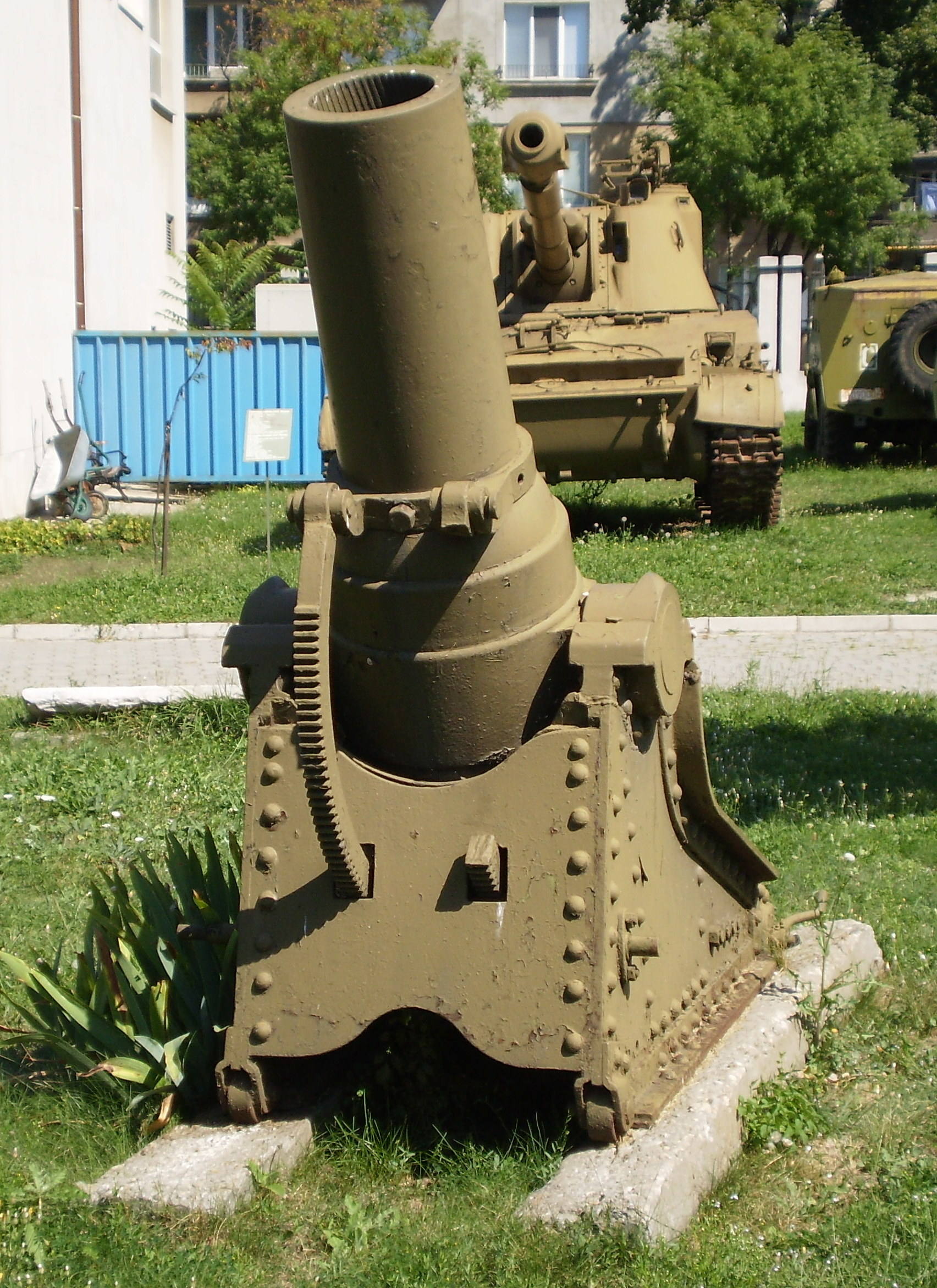 An 8-duim Russian mortar from the late 19th century (M1876)